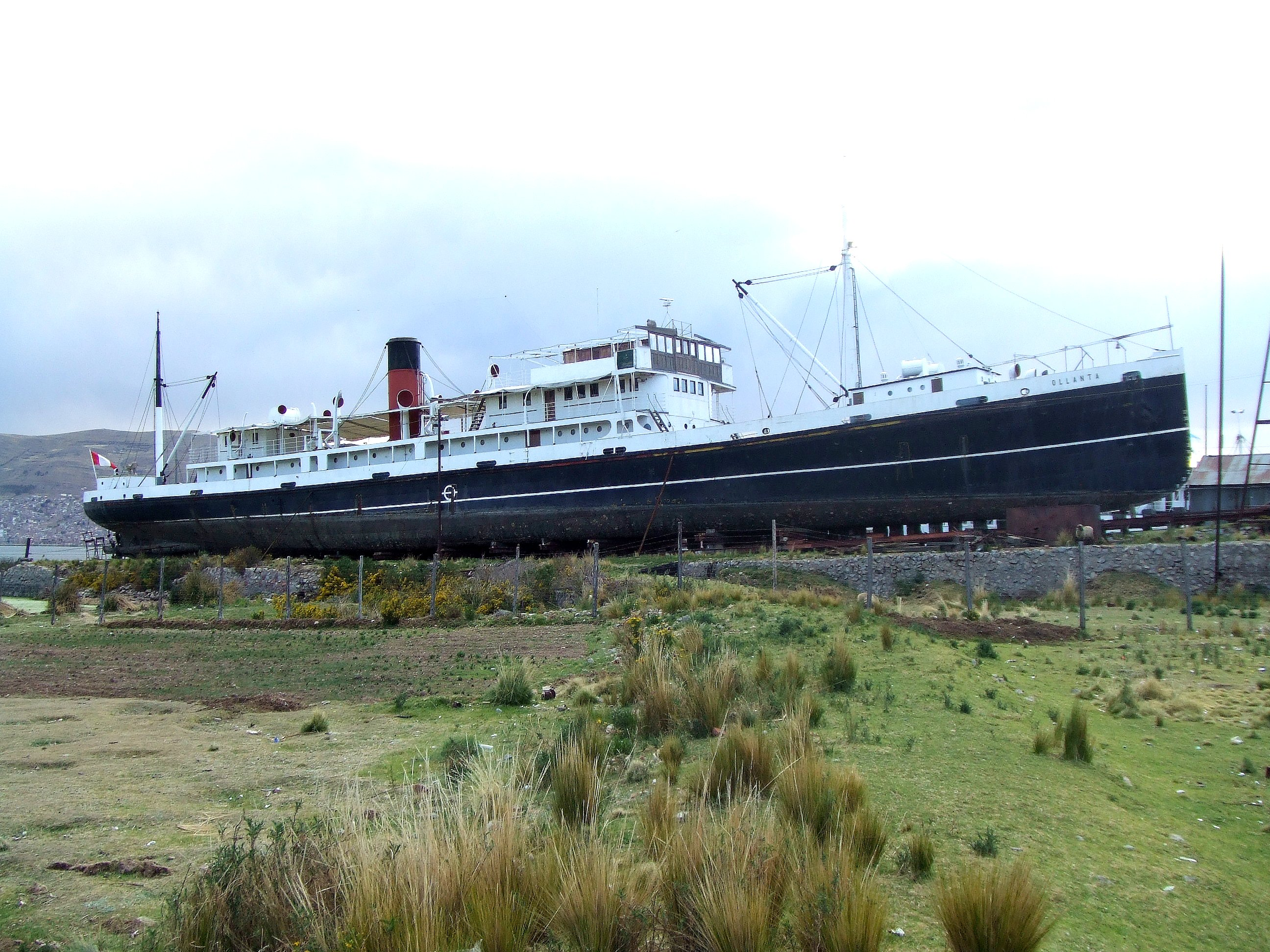 Apparently being refurbished by Peru Rail at Puno at the time this photo was taken in 11/07, the "SS Ollanta" was built by Earle's of Hull in 1930 for passenger/freight service on Lake Titicaca.